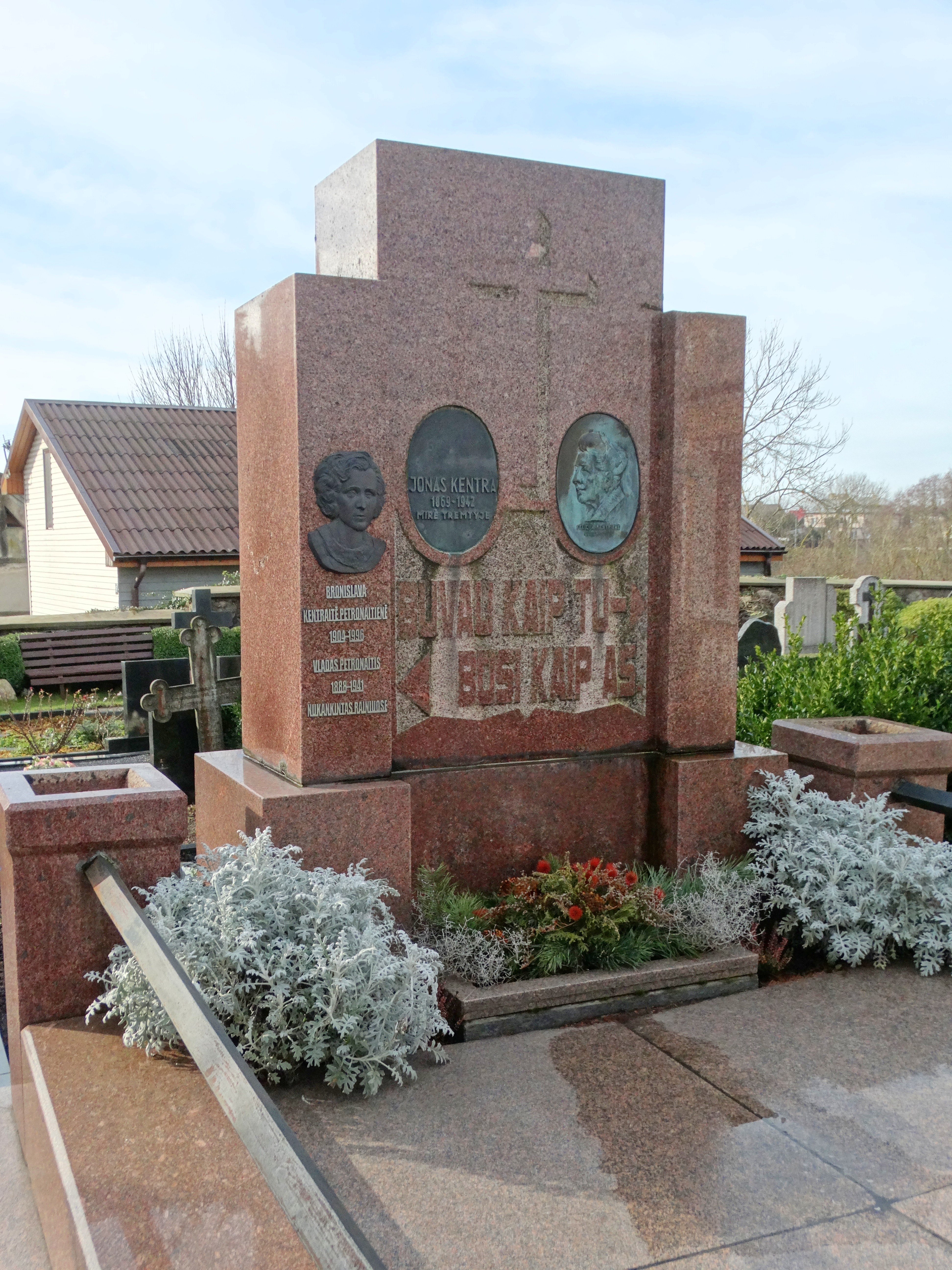 Vladas Petronaitis, Jonas_Kentra, Old cemetery, Kretinga, Lithuania